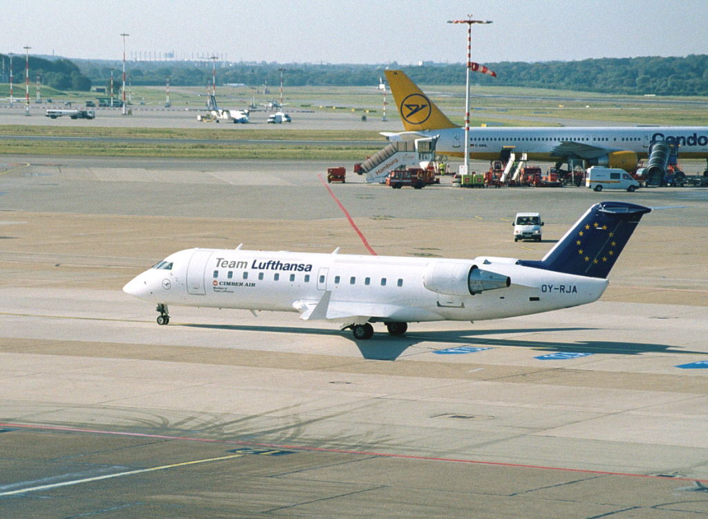 A Cimber Air Bombardier CRJ 200 LR in Hamburg Fuhlsbüttel. In the background: a Condor Boeing 757. Photo taken by Michael Krahe, Summer 2002.